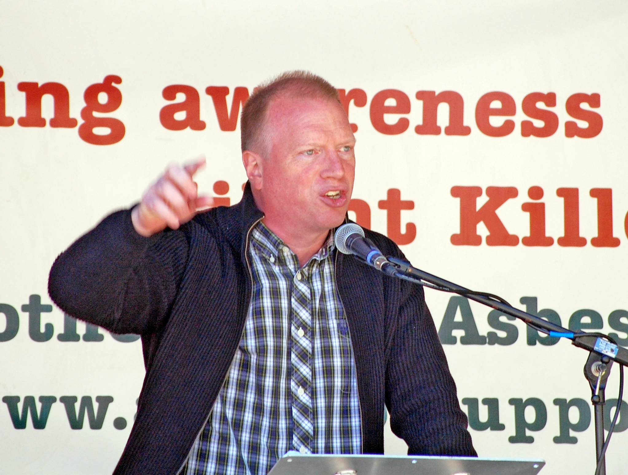 Matt Wrack leader of the Firefighters' union, the FBU, speaking at today's Chesterfield May Day rally.